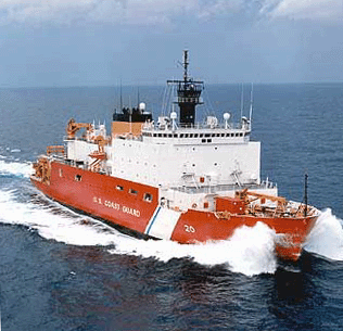 United States Coast Guard Cutter Healy